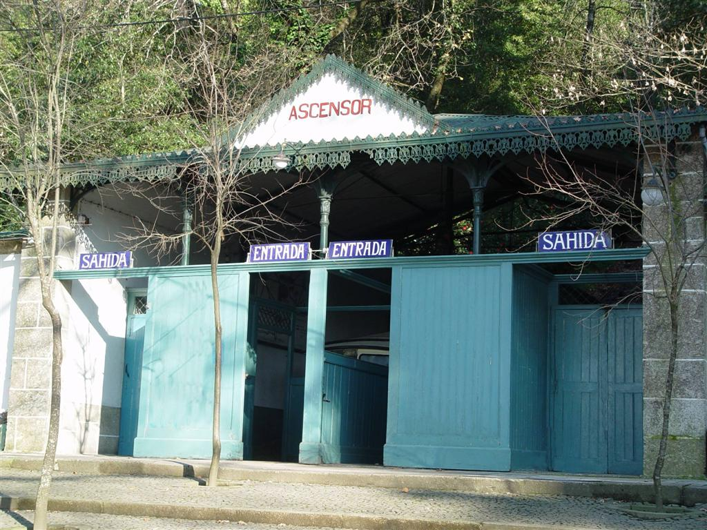 Bom Jesus funicular in Braga